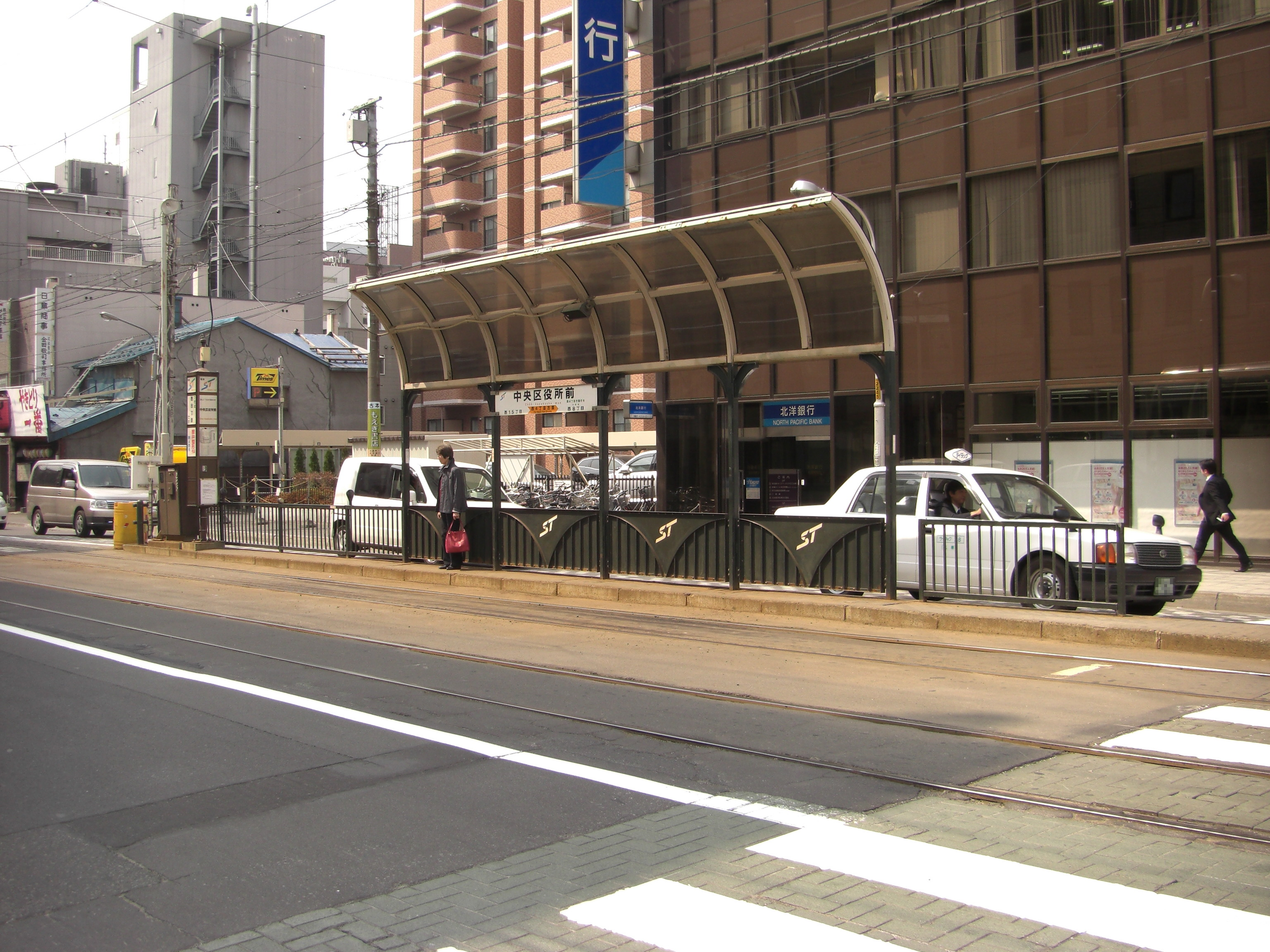 Chuo kuyakusyo mae Station in Sapporo, Hokkaido, Japan. It is the station on the Sapporo Streetcar Ichijō Line operated by Sapporo City Transportation Bureau.